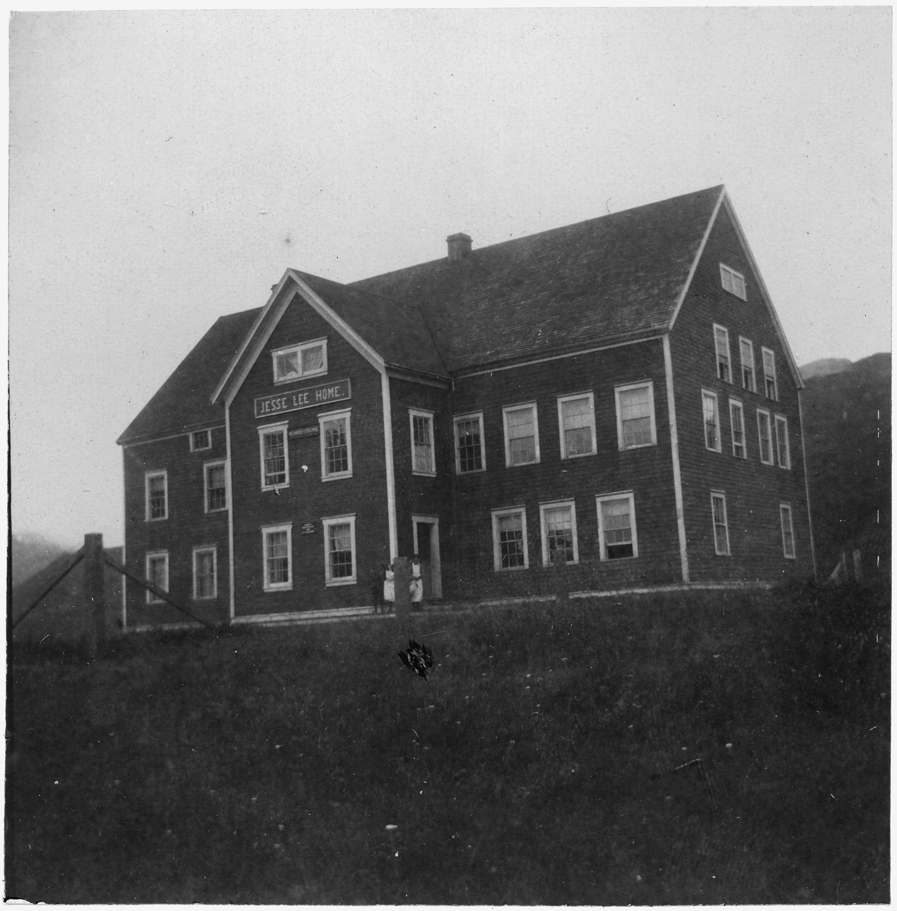 Scope and content: Frame building, sign reads "Jesse Lee Home".